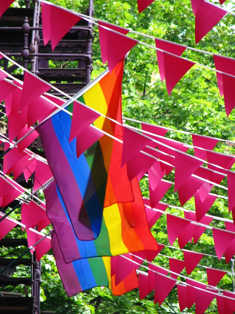 Flags and Trees